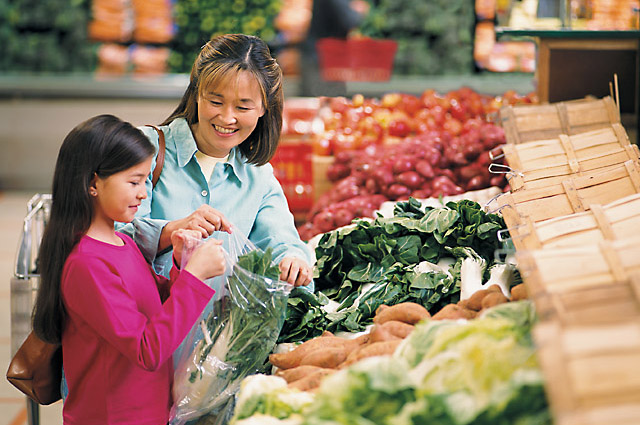 Fresh vegetables being placed into a plastic bag